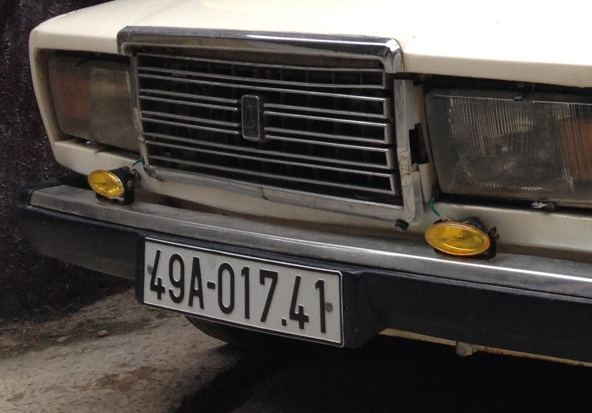 VAZ / Lada 2107 with license plate from Vietnam